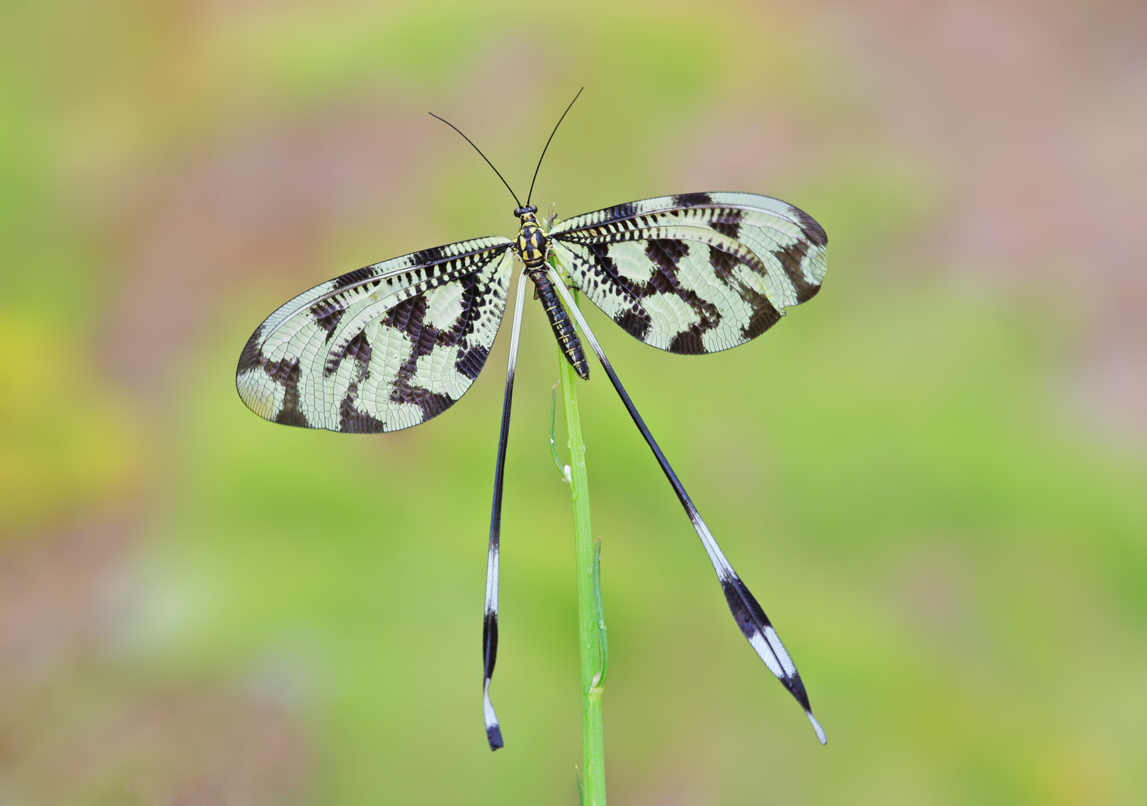 A kite bug (Nemoptera sinuata). Zorkun, Osmaniye - Turkey.